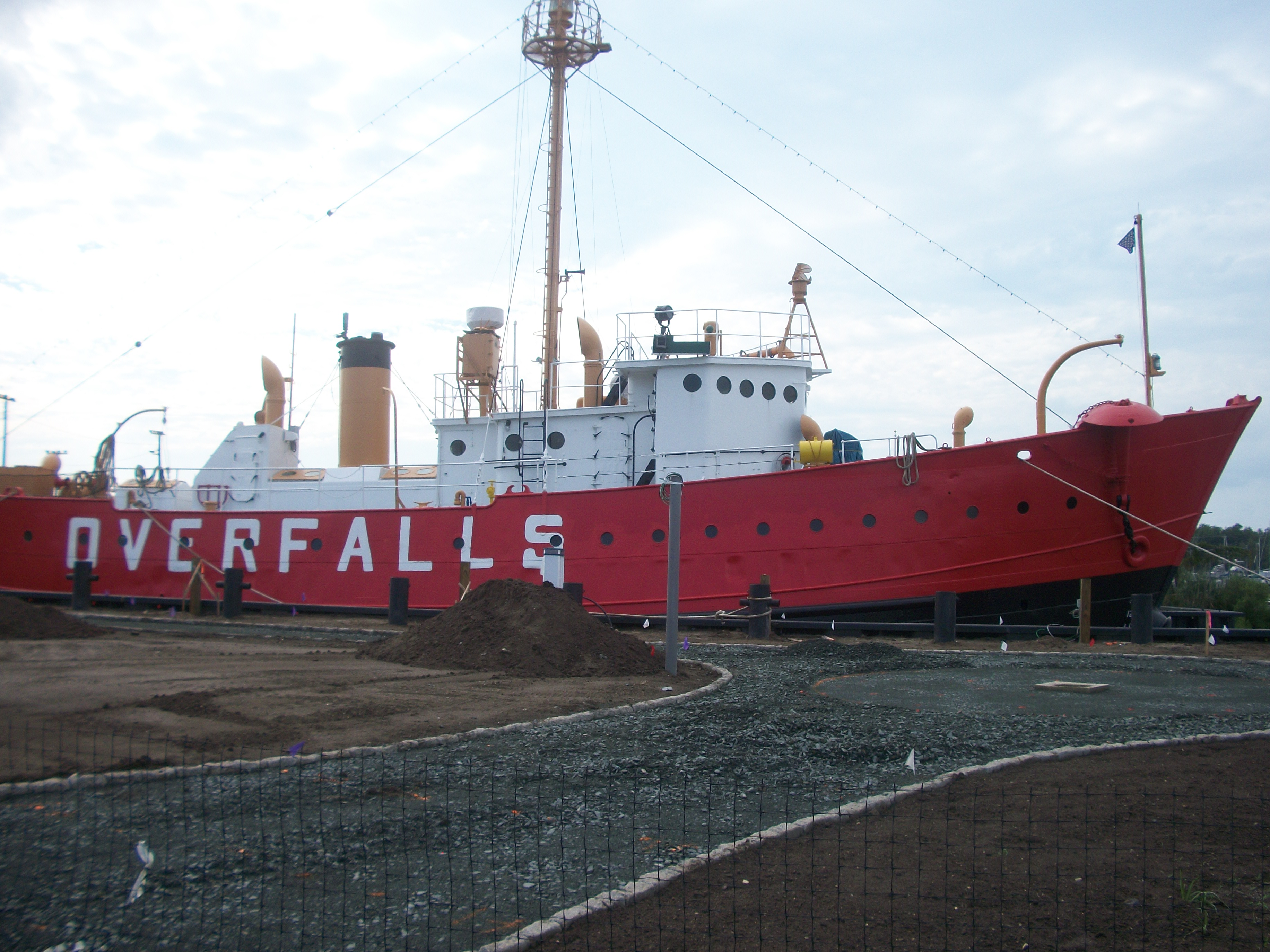 Taken July 21, 2010.